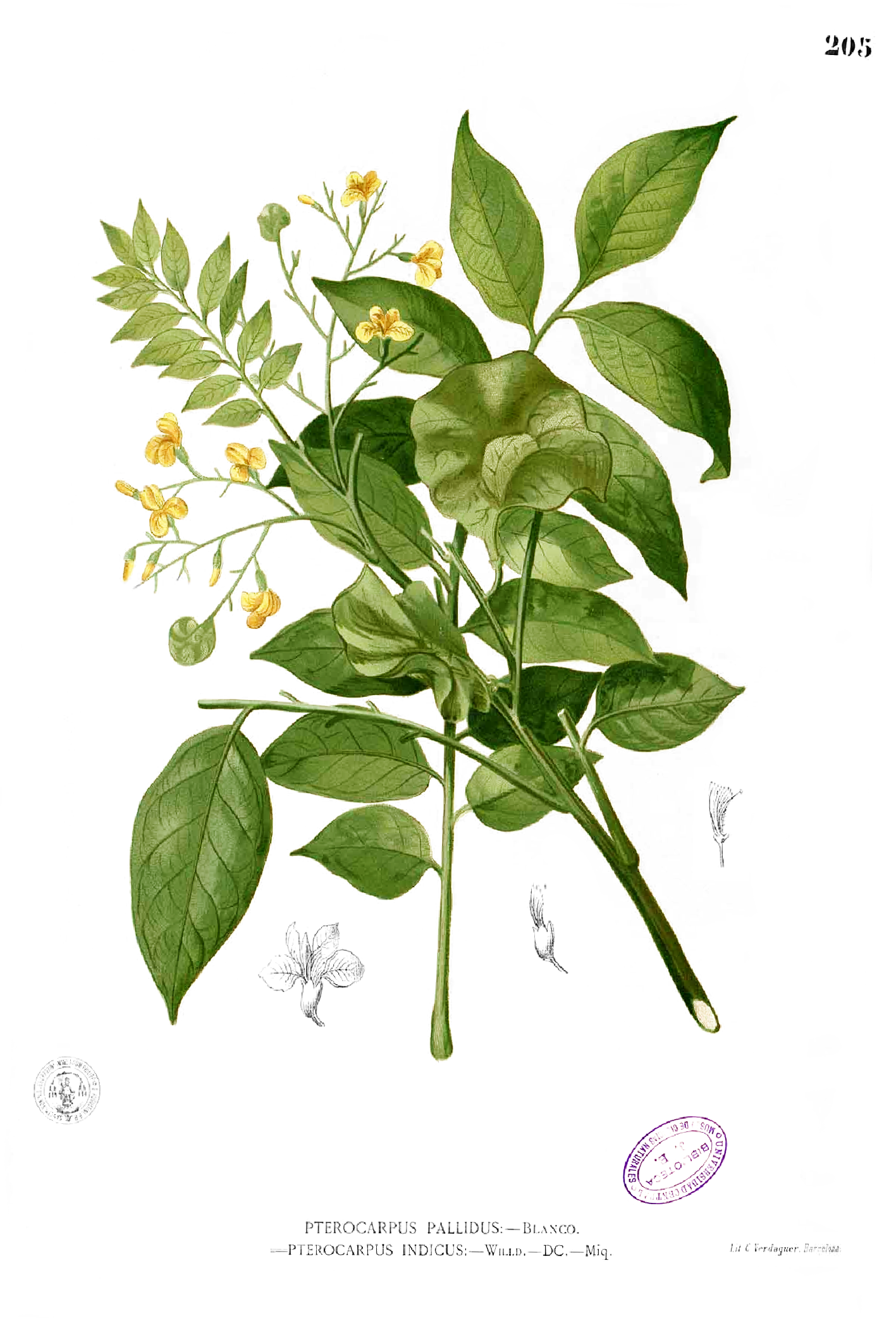 Plate from book